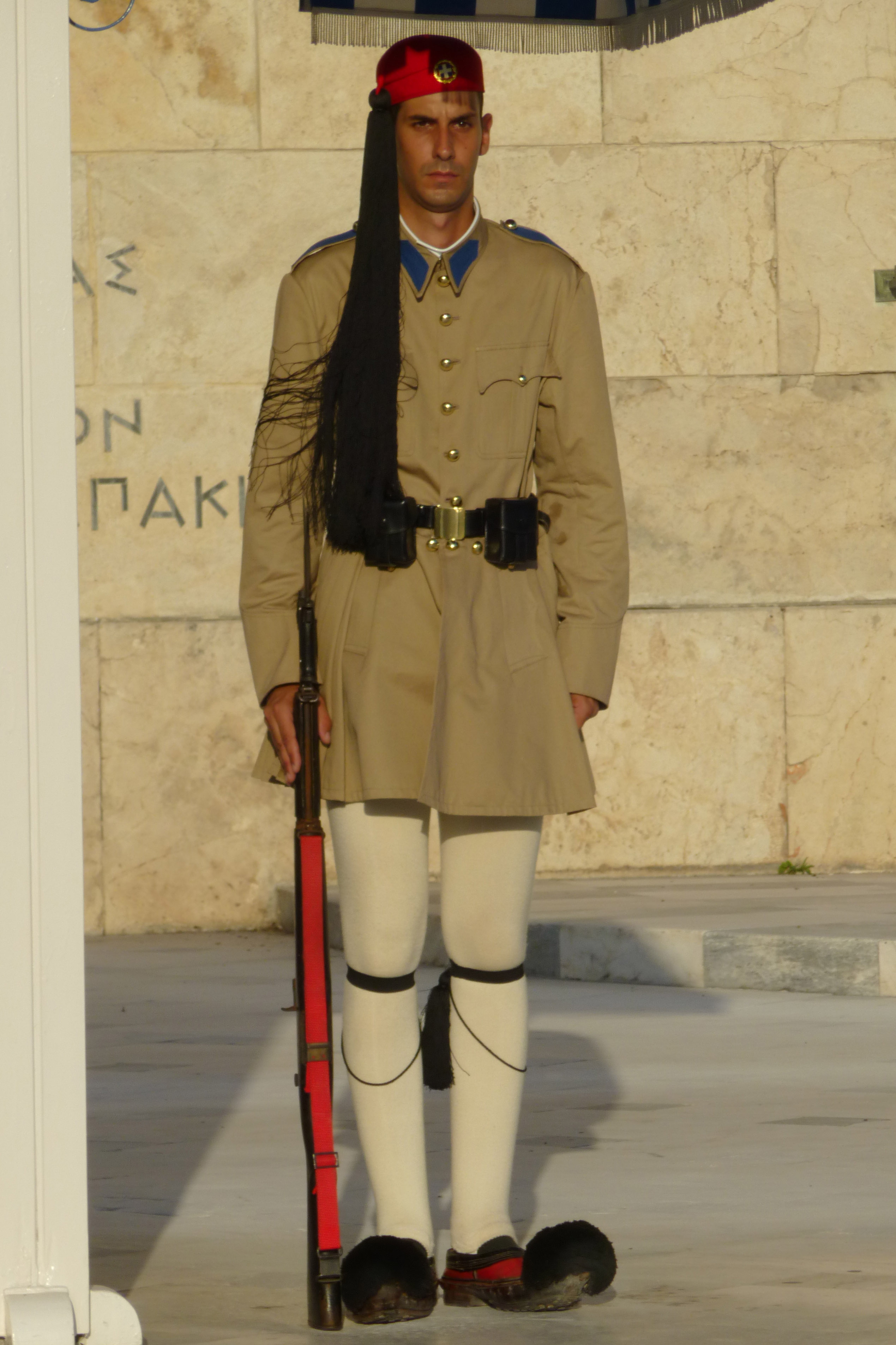 Evzone guard near Greece Parliament